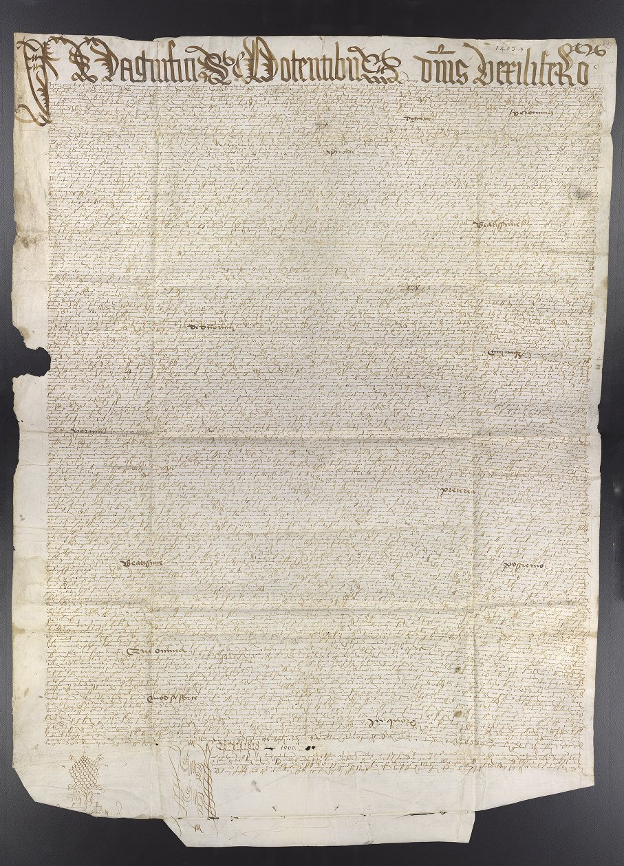 Review and restatement of a judgment dated Nov. 13, 1499 (Ms. Coll. 742, Folder 114), written Apr. 8, 1500. The judgment itself is pronounced by Francesco di Nanni Todeschini Piccolomini, then cardinal of Siena, later Pope Pius III, in the name of the Catholic Church and Pope Alexander VI